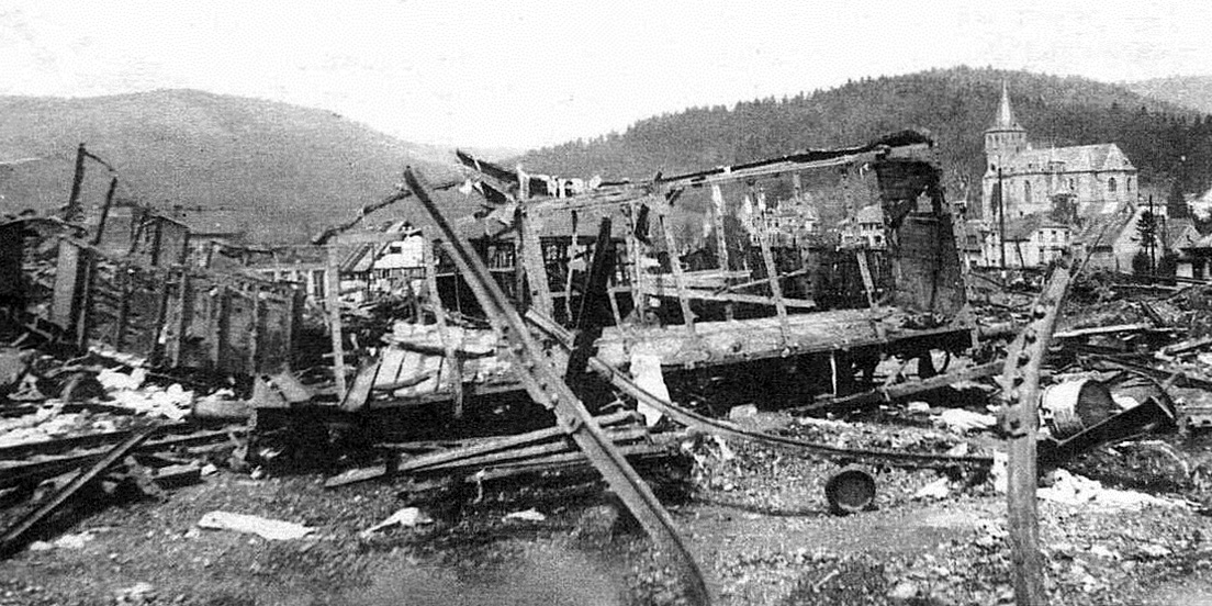 Bombing of Engelskirchen in World War II